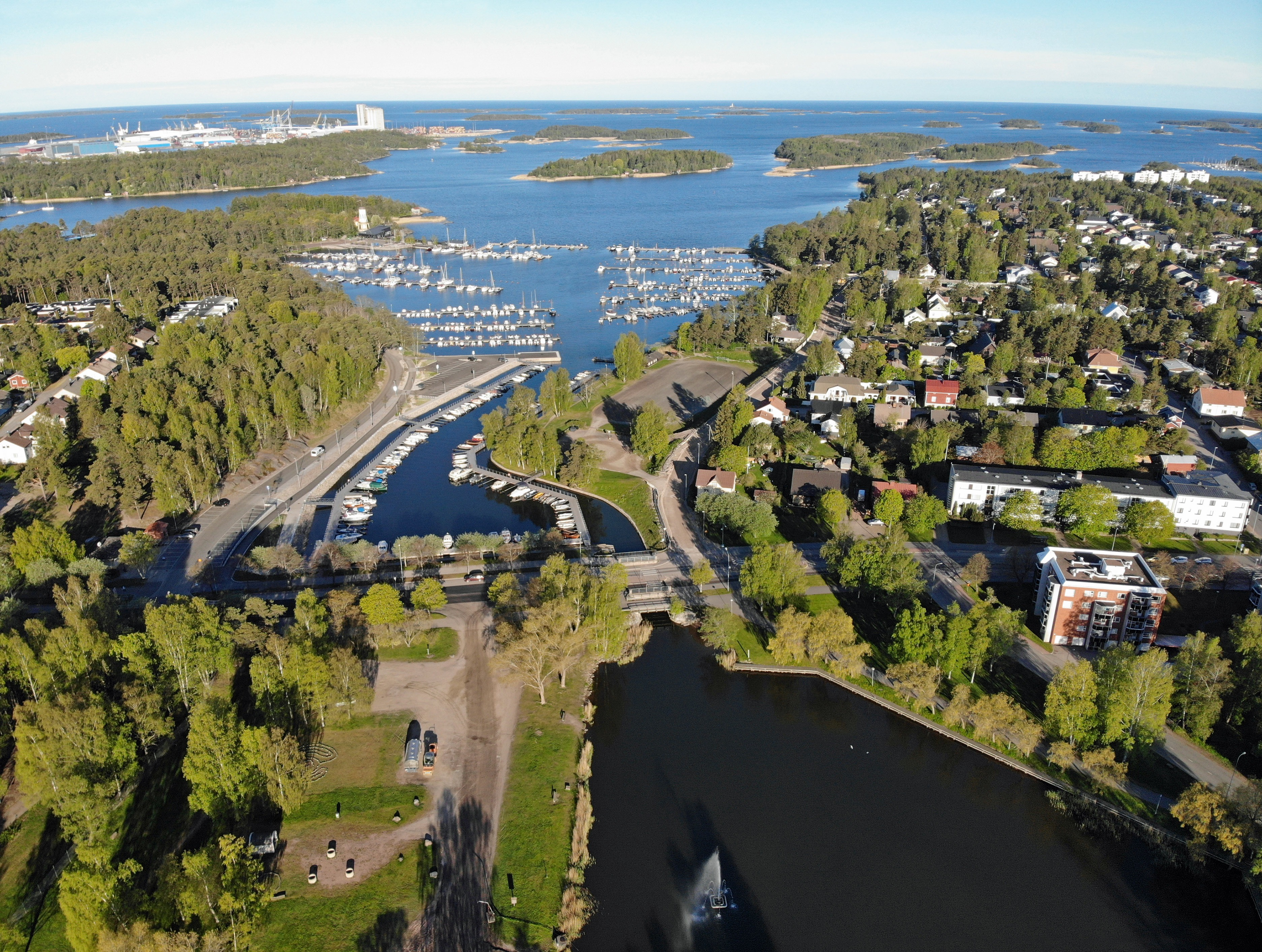 Rauma marina.